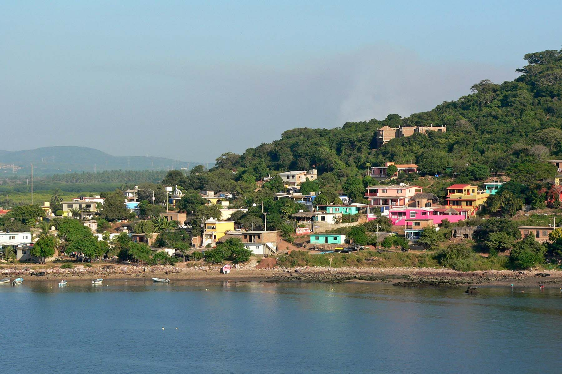 Photo of Isla de la Piedra near Mazatlan